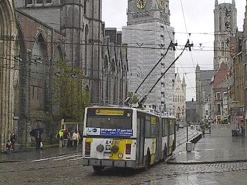 Trolleybus in Ghent, Belgium.